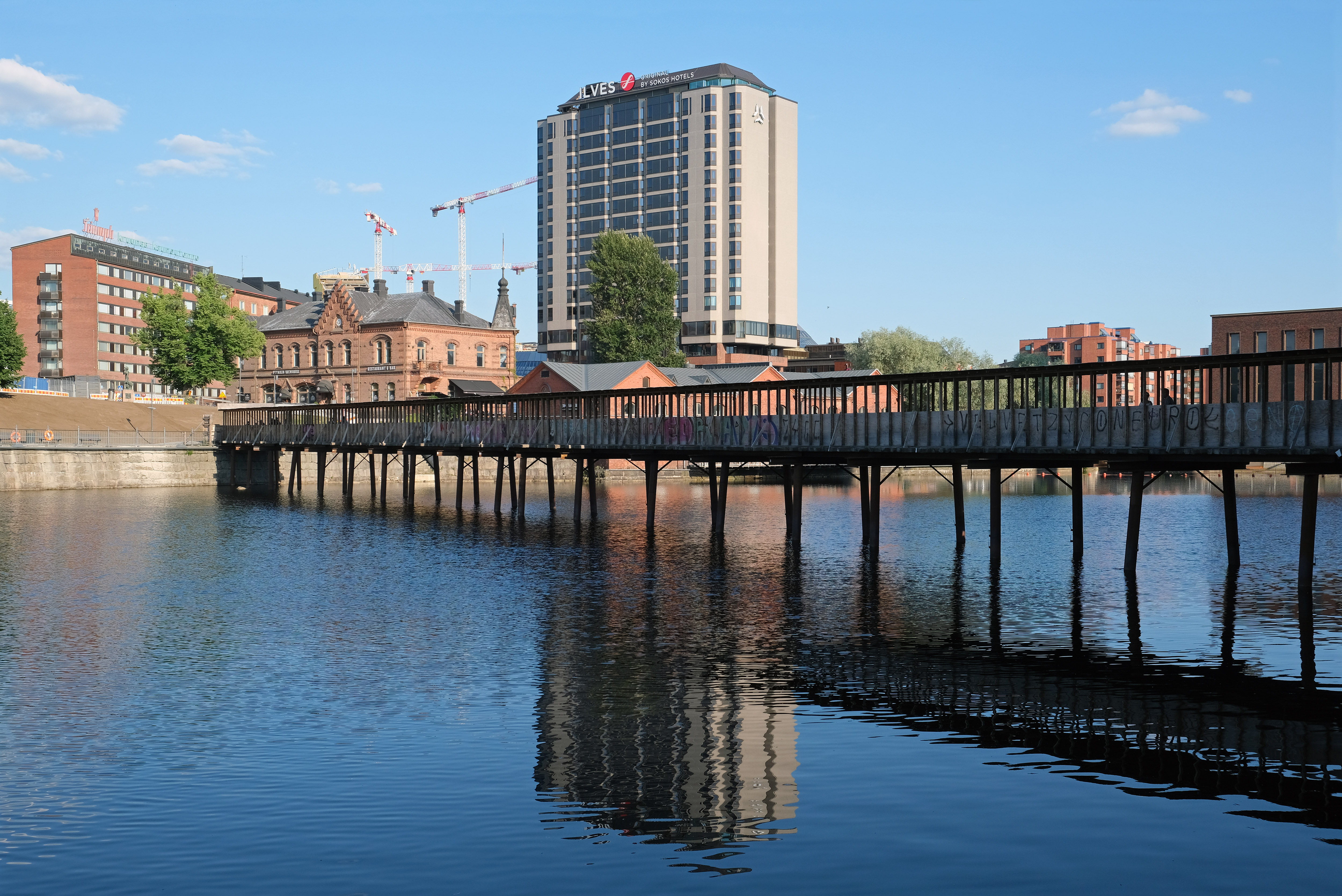 A temporary bridge during the construction of the bridge Hämeensilta in Tampere, Finland.